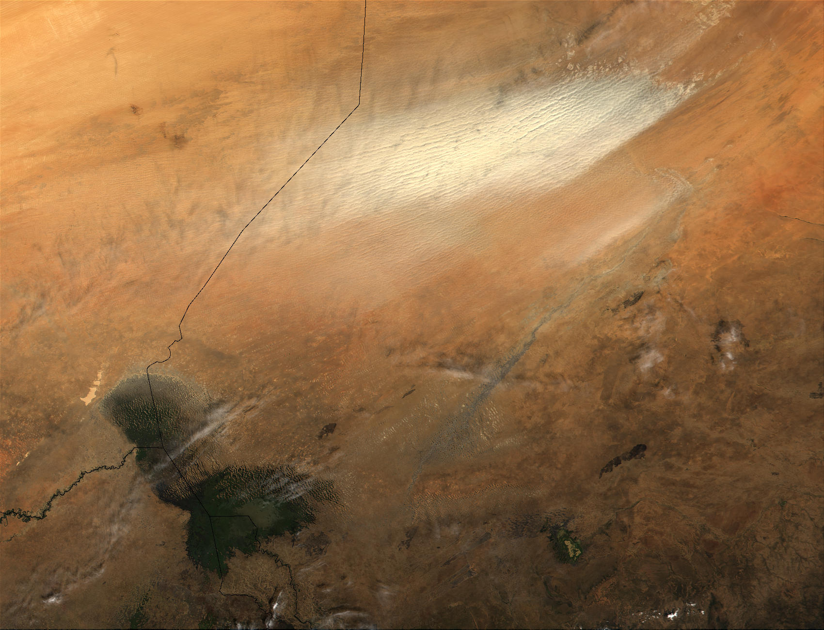 Satellite photo of Chad.